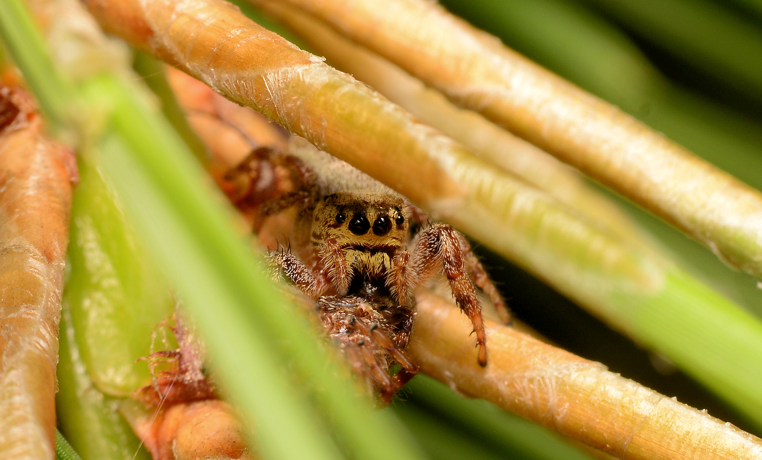 Adult female Eris floridana face Note: yellow scaled face, lacks scales immediately above primary eyes